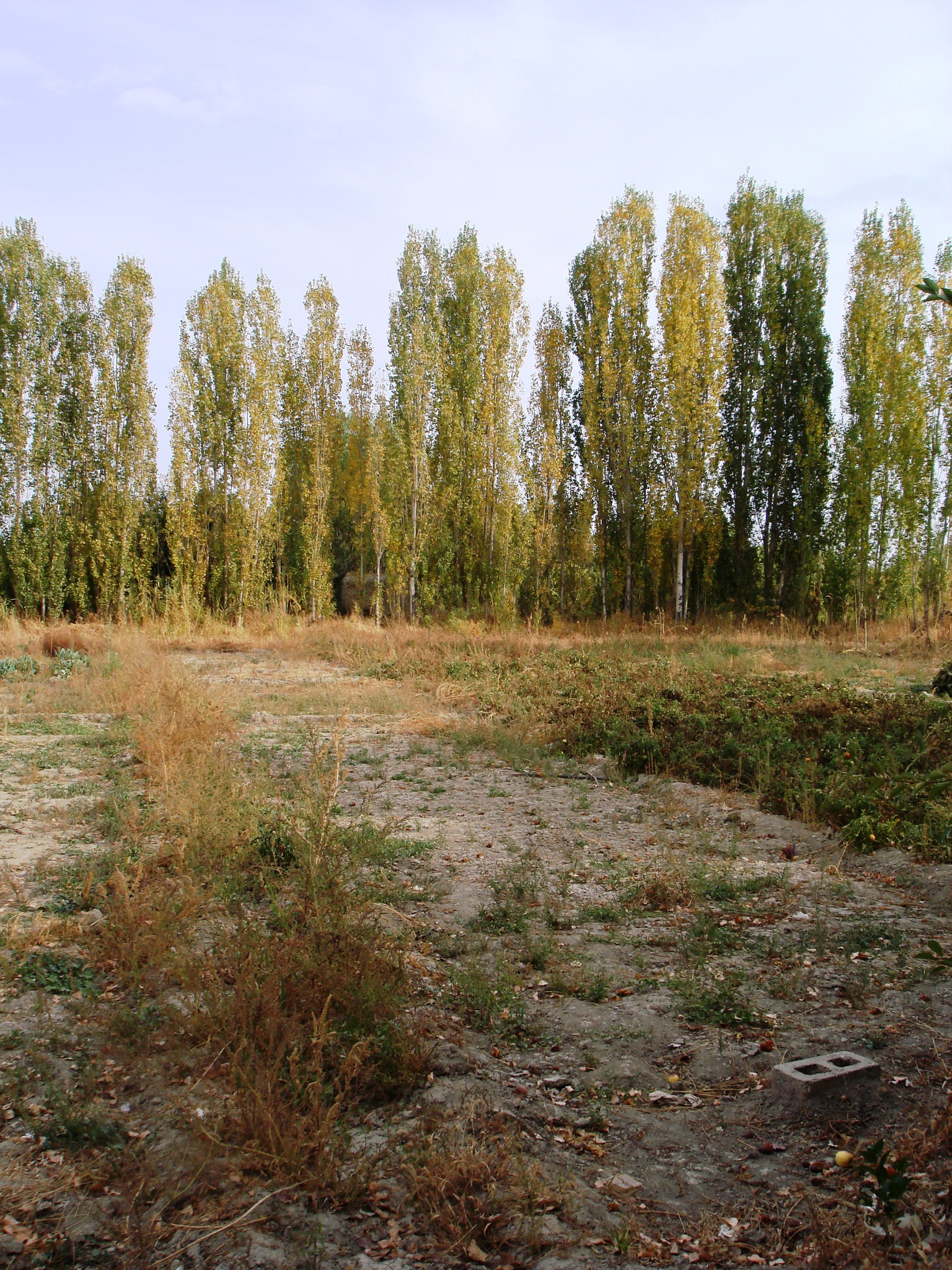 kavrag